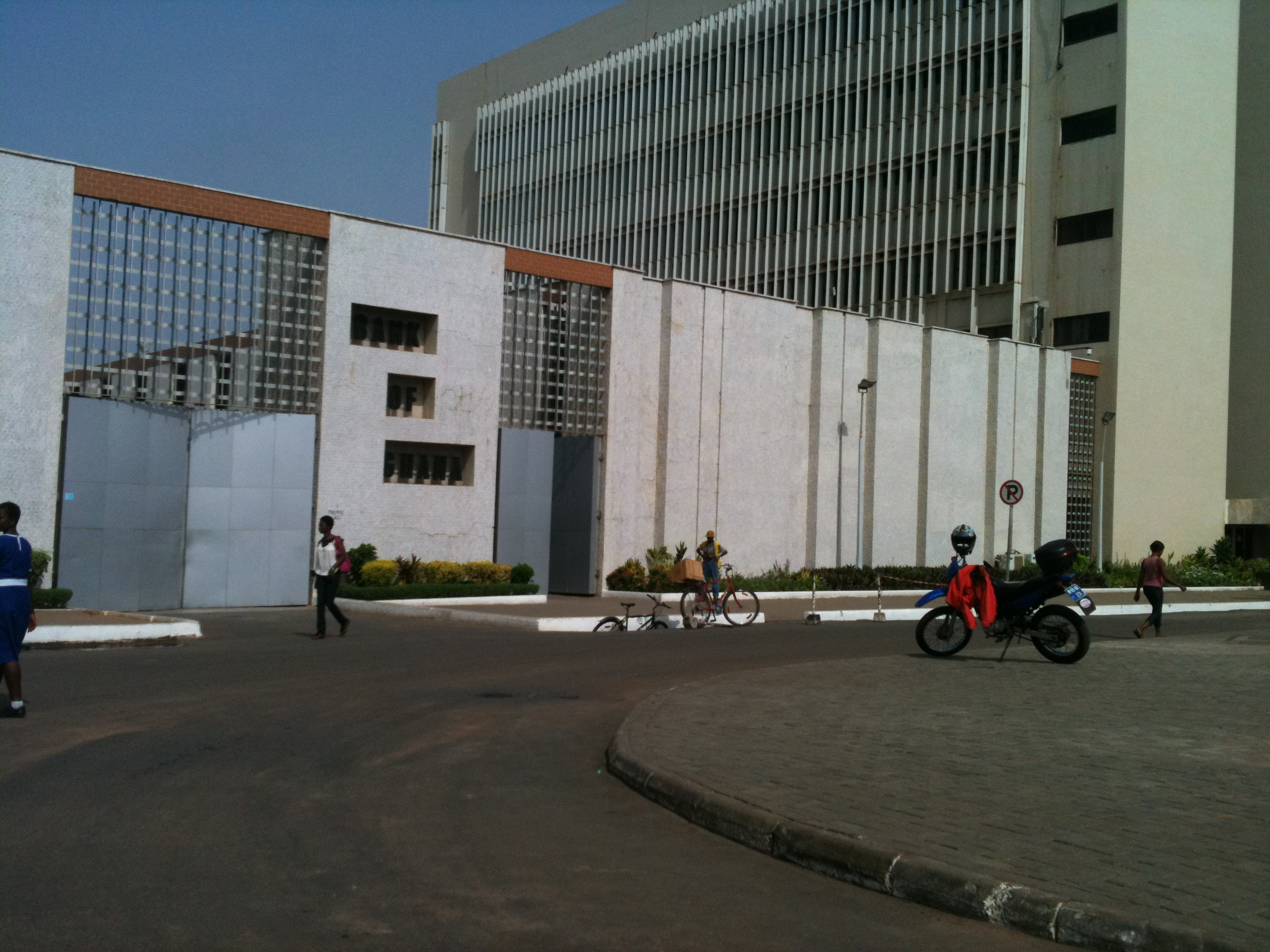 Bank of Ghana building on High Street in Accra